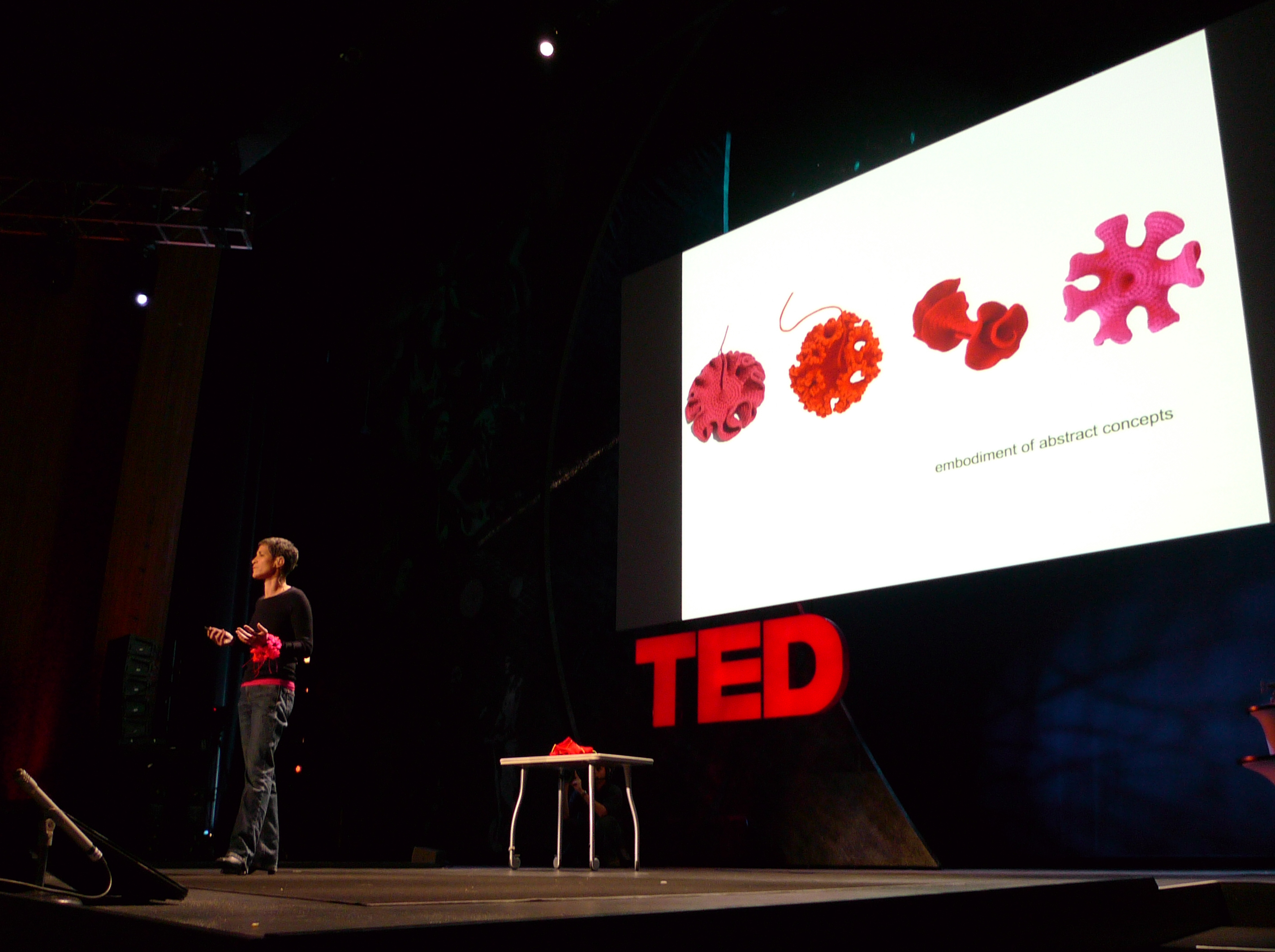 Margaret Wertheim speaking at TED Wertheim showing off some hyperbolic surfaces that can only be created through crochet.